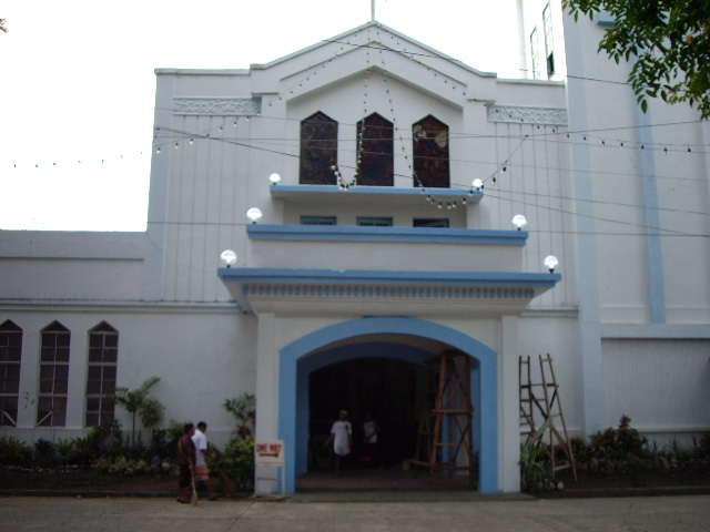 The St. Michael PArish Church